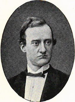 Ernst Johan Gustaf Hjertström (1849-1902), Swedish psychiatrist